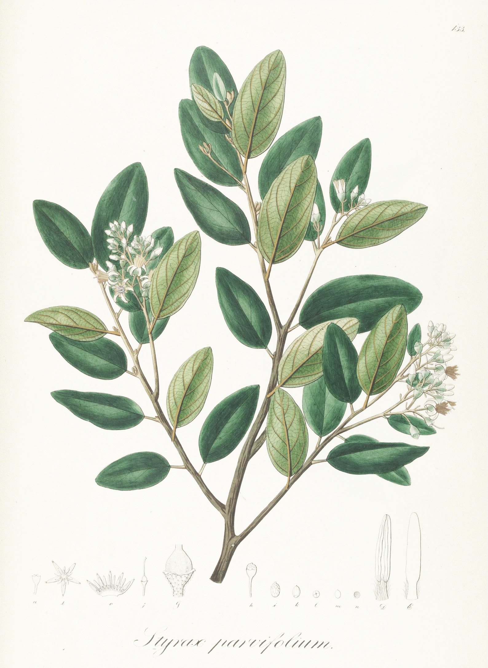 Plate from book